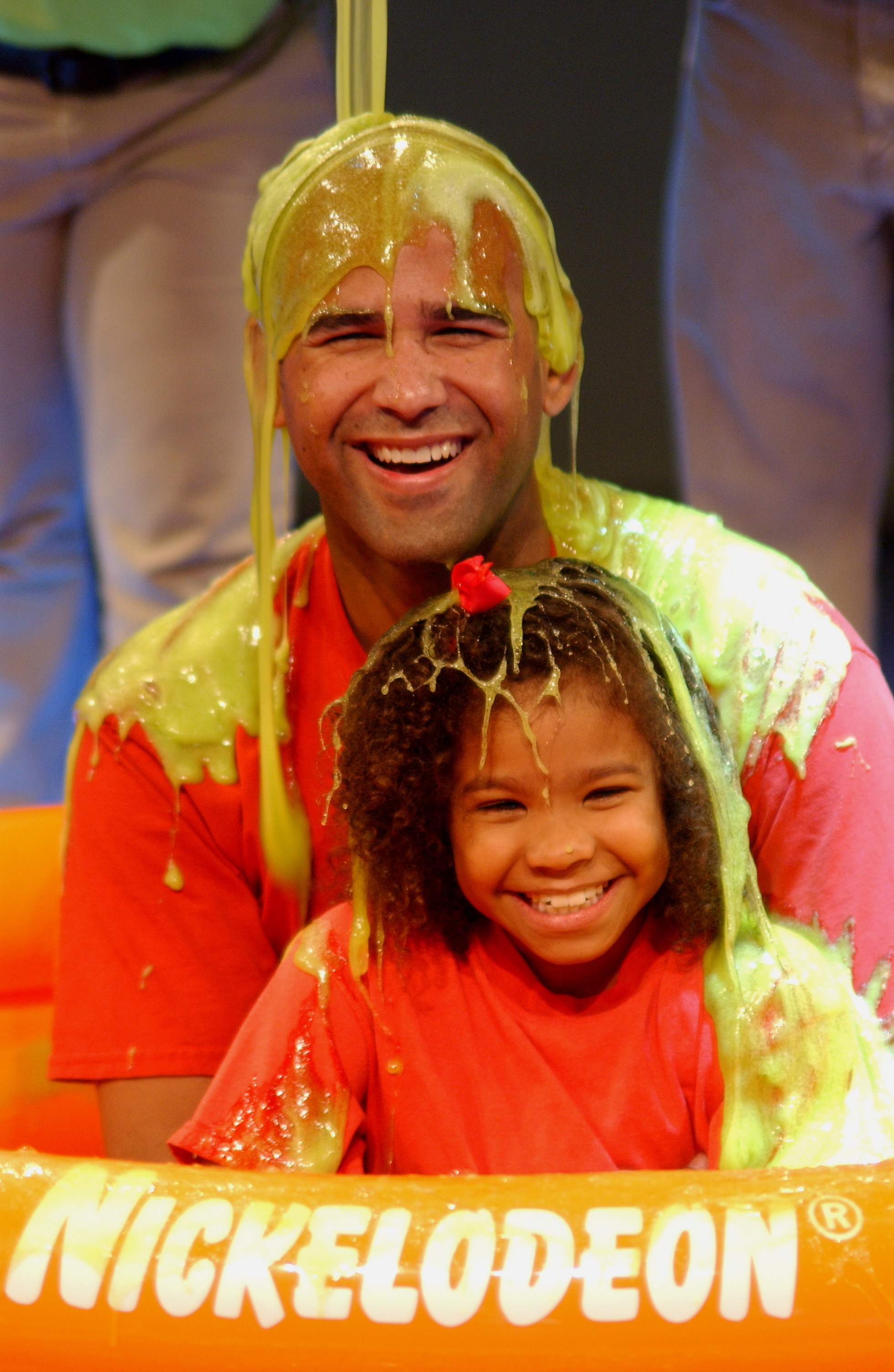 Get covered in green SLIME!